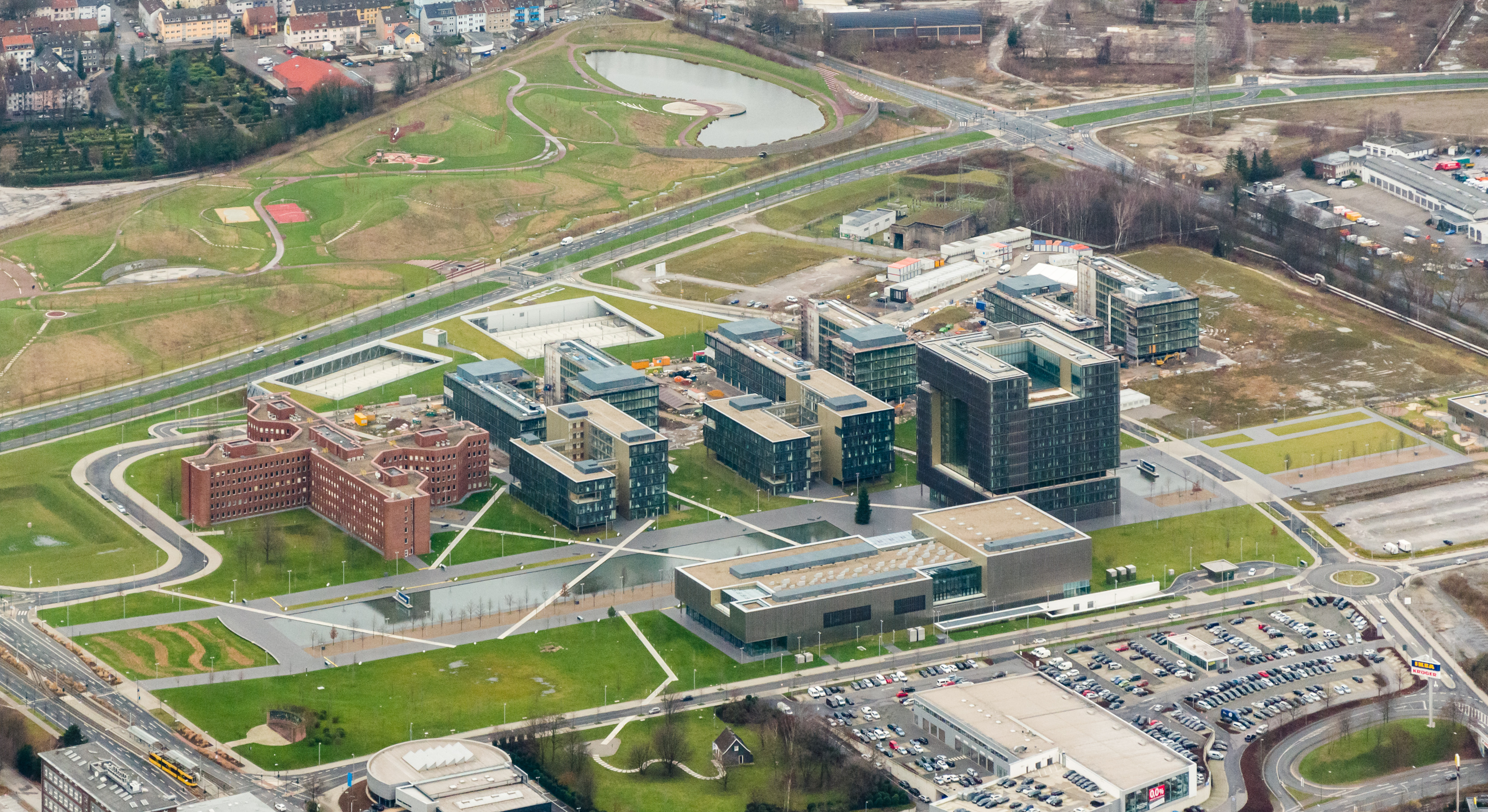 Aerial photo of ThyssenKrupp Headquarters, direction NW